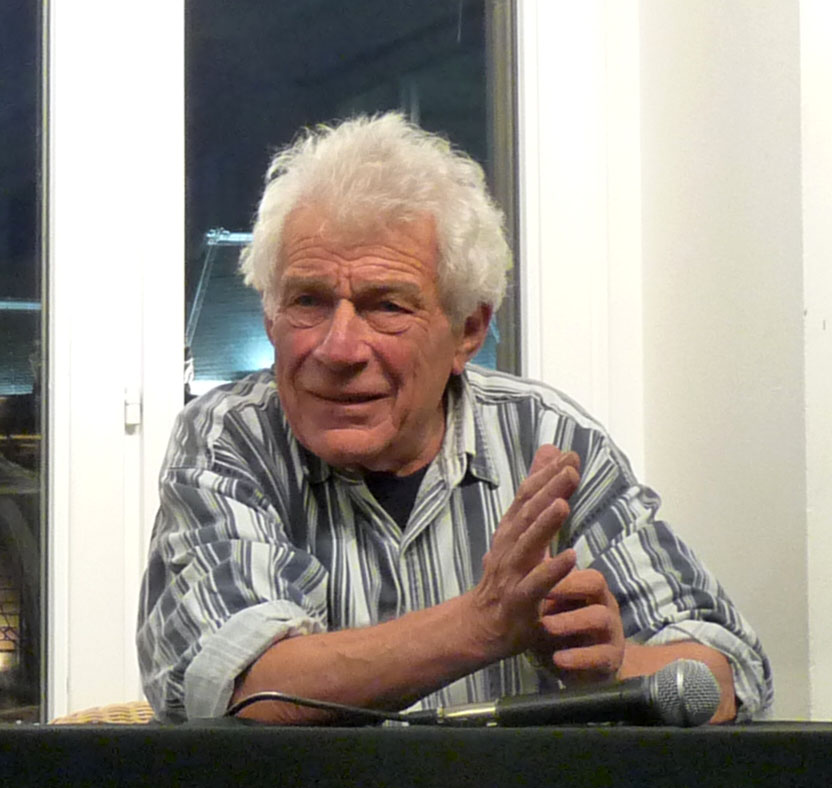 British writer John Berger